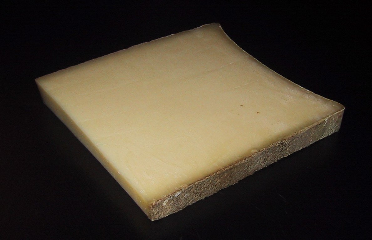 A slice of Beaufort.